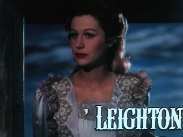 Margaret Leighton in The Elusive Pimpernel (1950) (UK), also known as The Fighting Pimpernel (US), by Michael Powell and Emeric Pressburger.